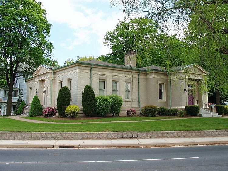 The former Southington Public Library building, Southington, Connecticut